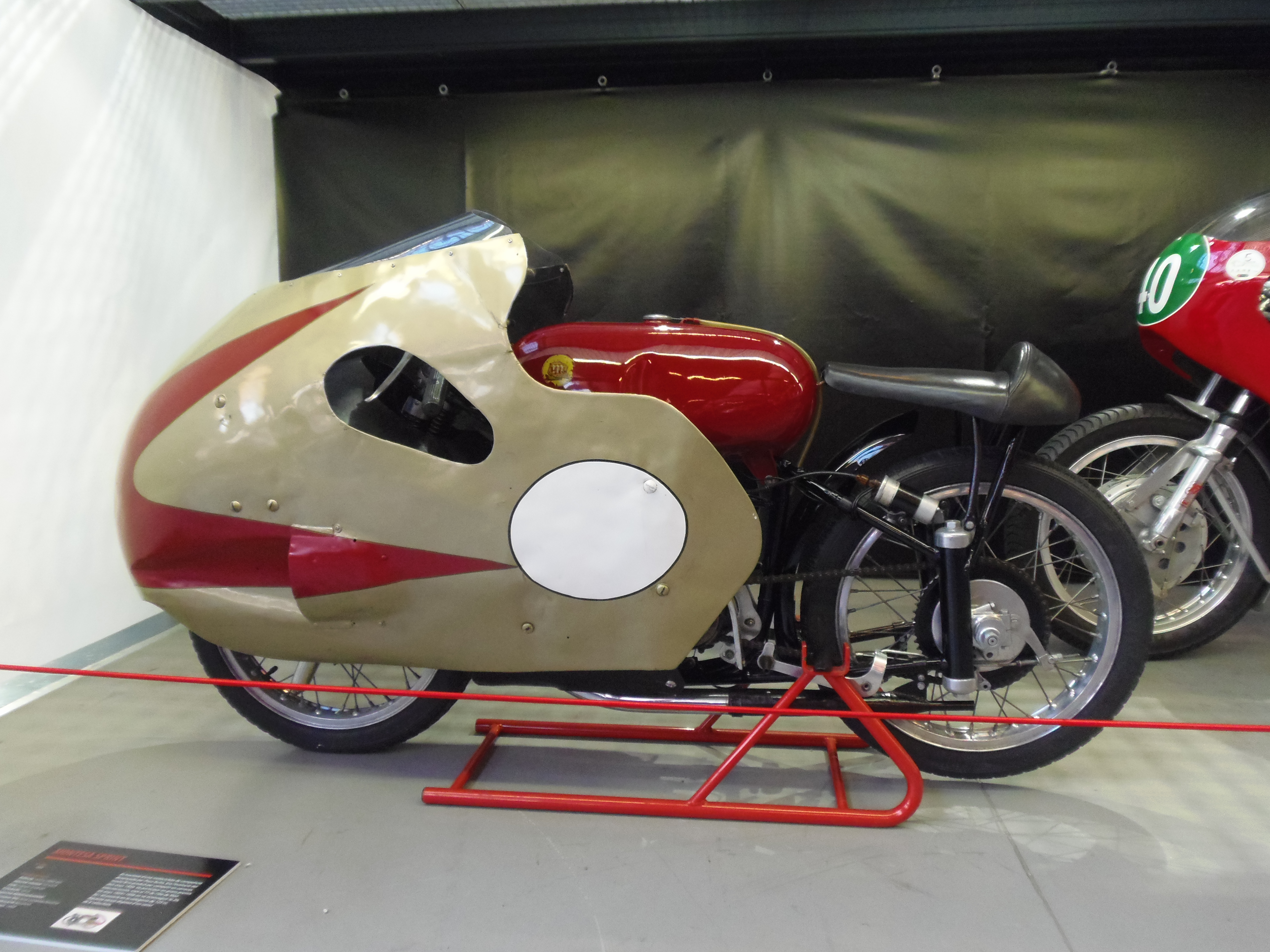 Montesa Sprint 125cc. On three bikes like this, Marcel Cama, Paco González and Enric Sirera finished second, third and fourth (after Carlo Ubbiali) at the 1956 Manx TT.